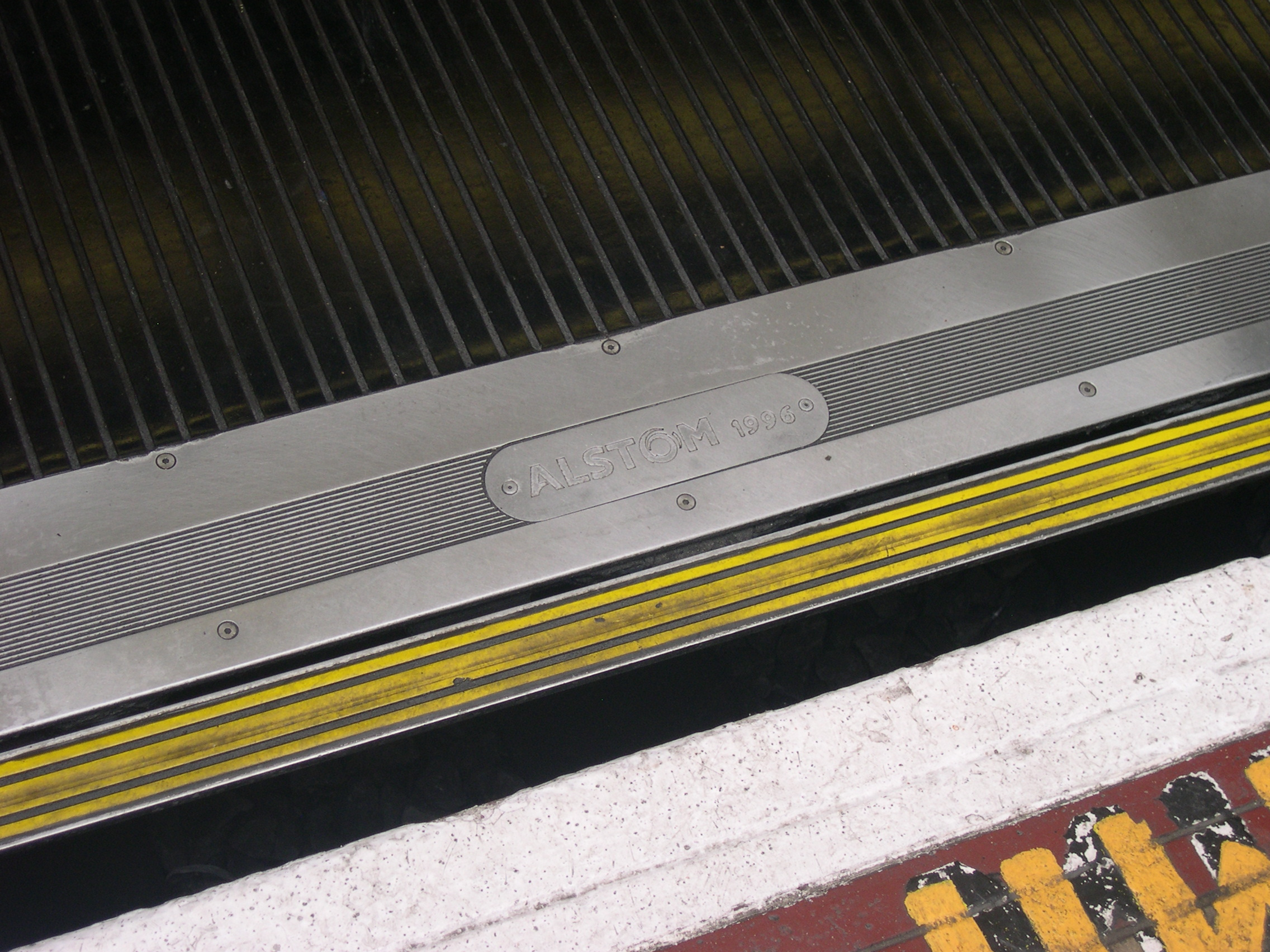 Manufacturer's name on a 1996 tube stock, 2002 updrade